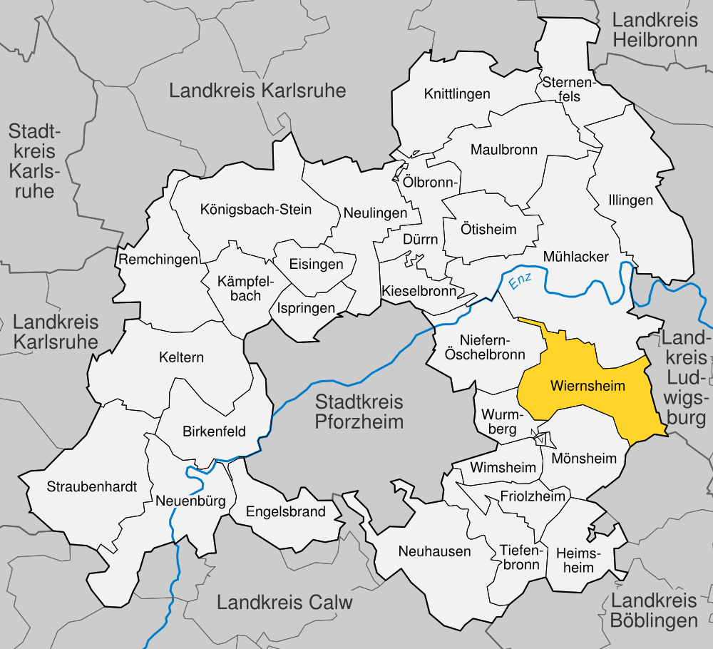 position of Wiernsheim within distict of Enzkreis, Baden-Württemberg, Germany